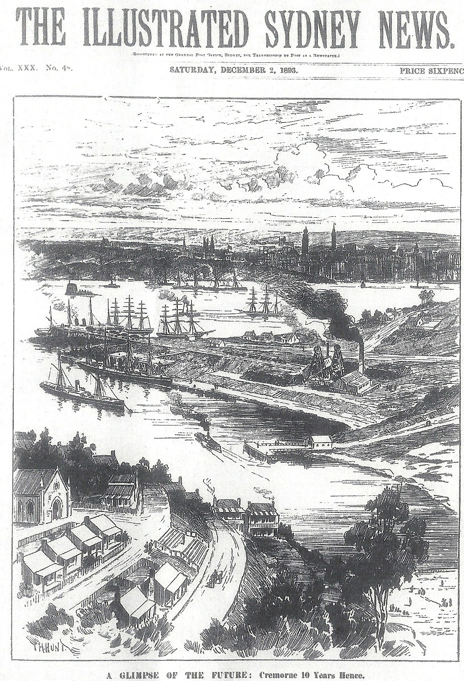 Illustrated Sydney News Dec 2, 1893 front page